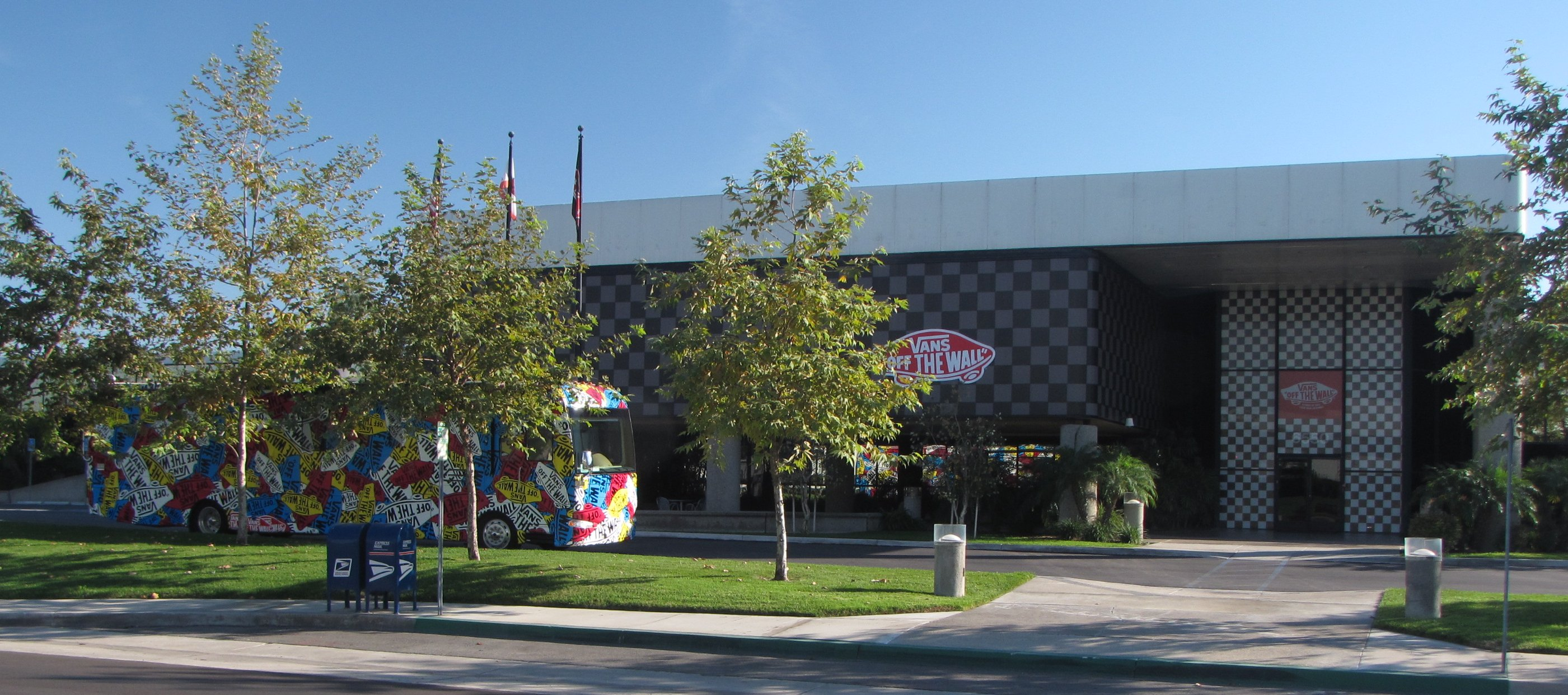 Vans headquarters, Cypress, California